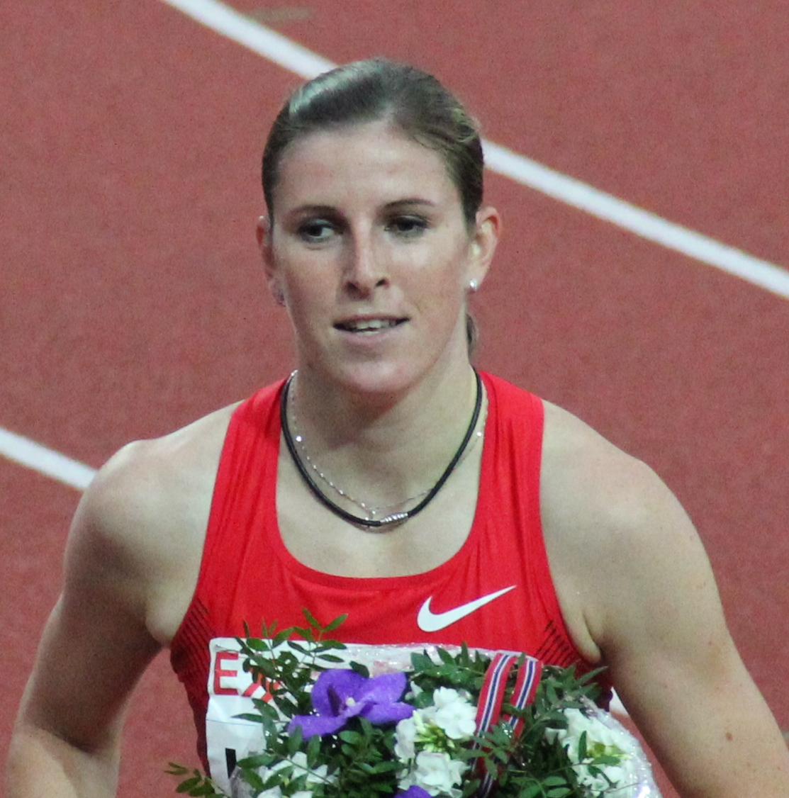 Zuzana Hejnová at the 2011 Bislett Games